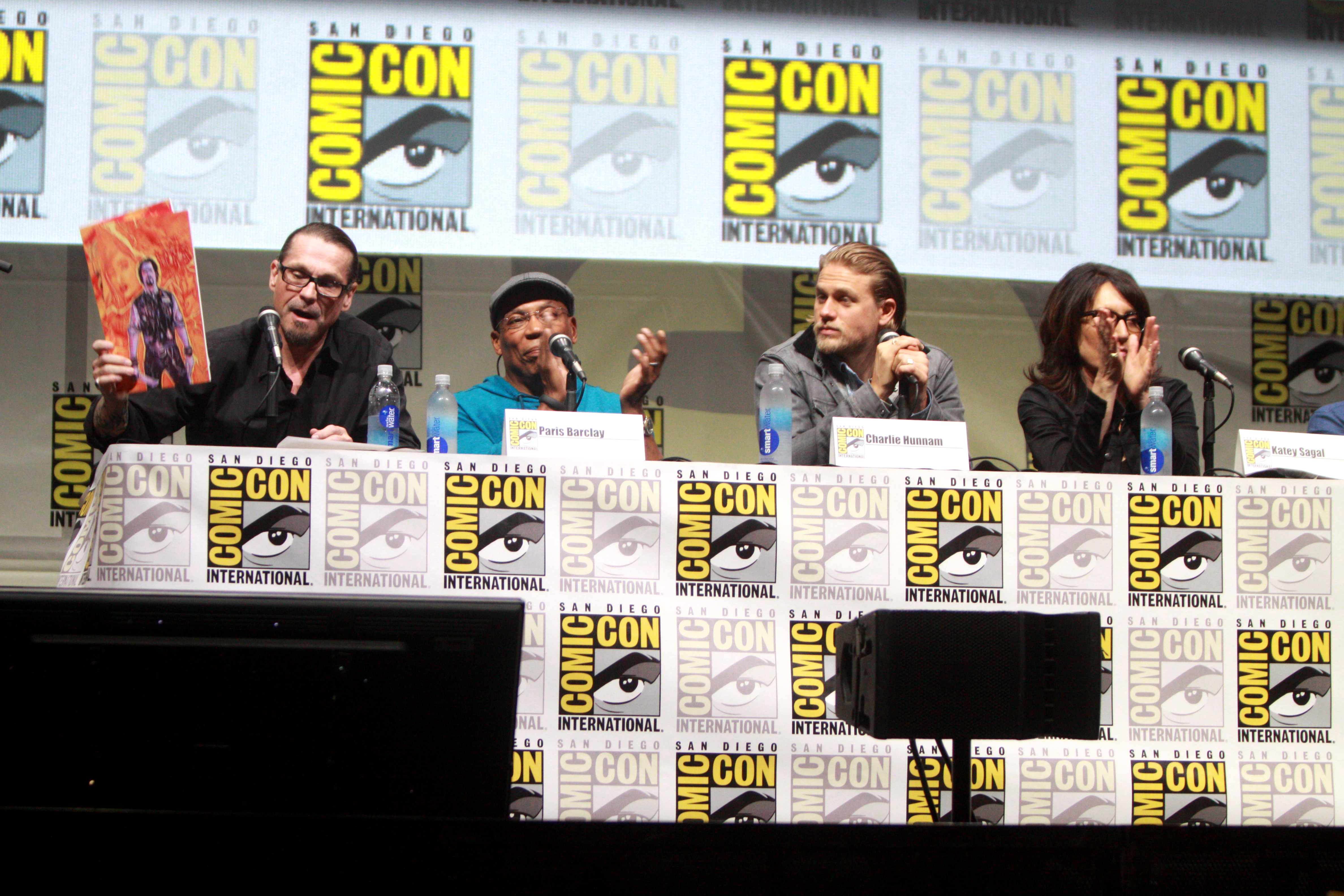 Kurt Sutter, Paris Barclay, Charlie Hunnam and Katey Sagal speaking at the 2013 San Diego Comic Con International, for "Sons of Anarchy", at the San Diego Convention Center in San Diego, California.